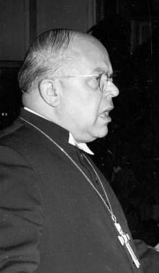 Title: Kassel, 2. CVJM-Europa-Konferenz Extra information: Redner bei einer Veranstaltung im Rahmen der 2. CVJM Europakonferenz in Kassel Factual corrections and alternative descriptions are encouraged separately from the original description. Additionally errors can be reported at this page to inform the Bundesarchiv. Original historic description: CVJM Kassel